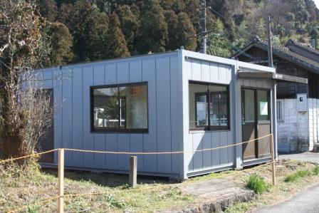 Yoake Station, temporary building